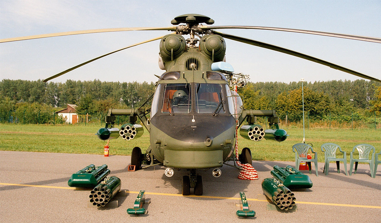 PZL W-3 Sokół (Falcon) on static display at Radom Air Show 2005.